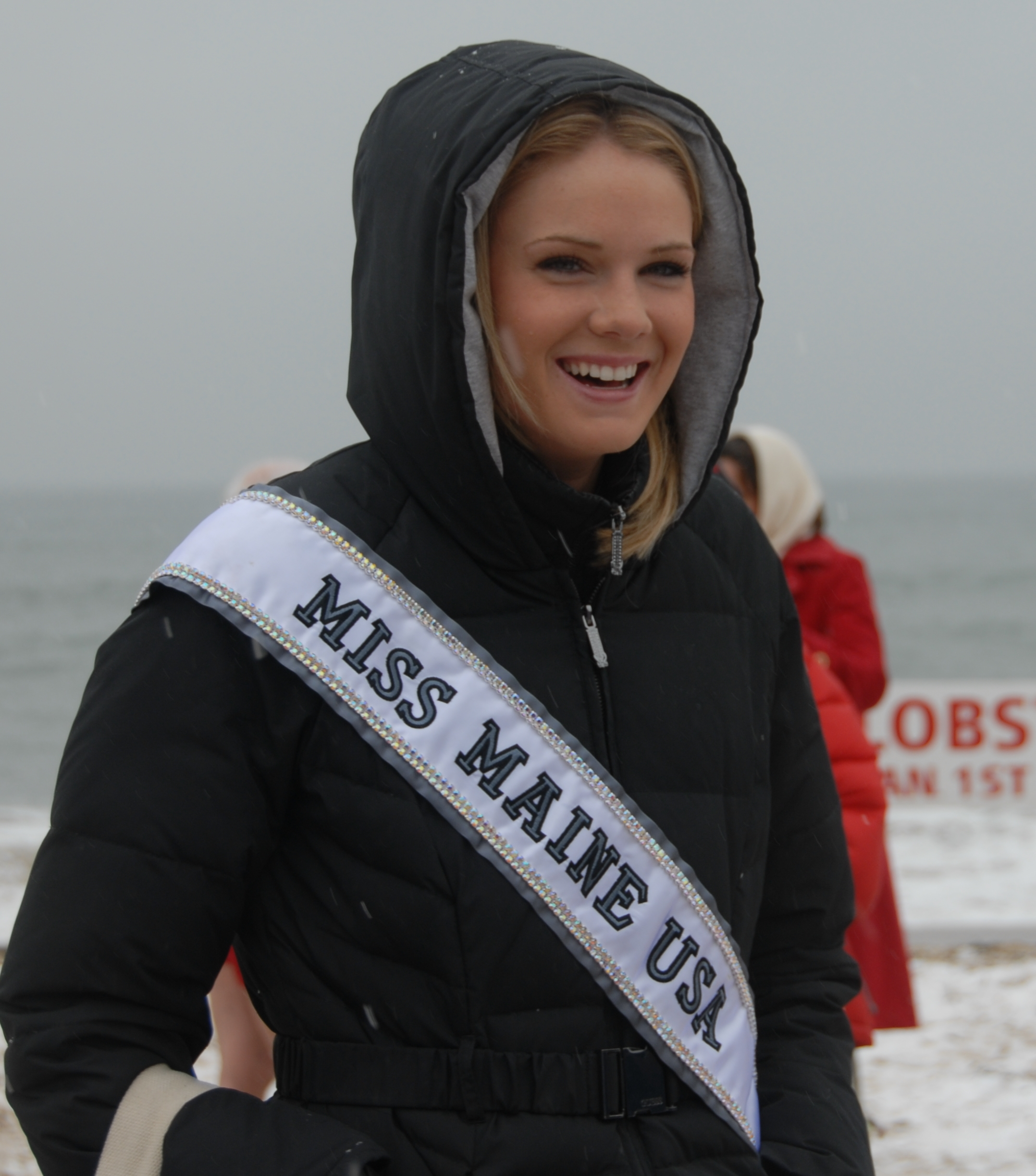 Katie Whittier, Miss Maine USA 2010 at the Lobster Dip at Old Orchard Beach Maine.